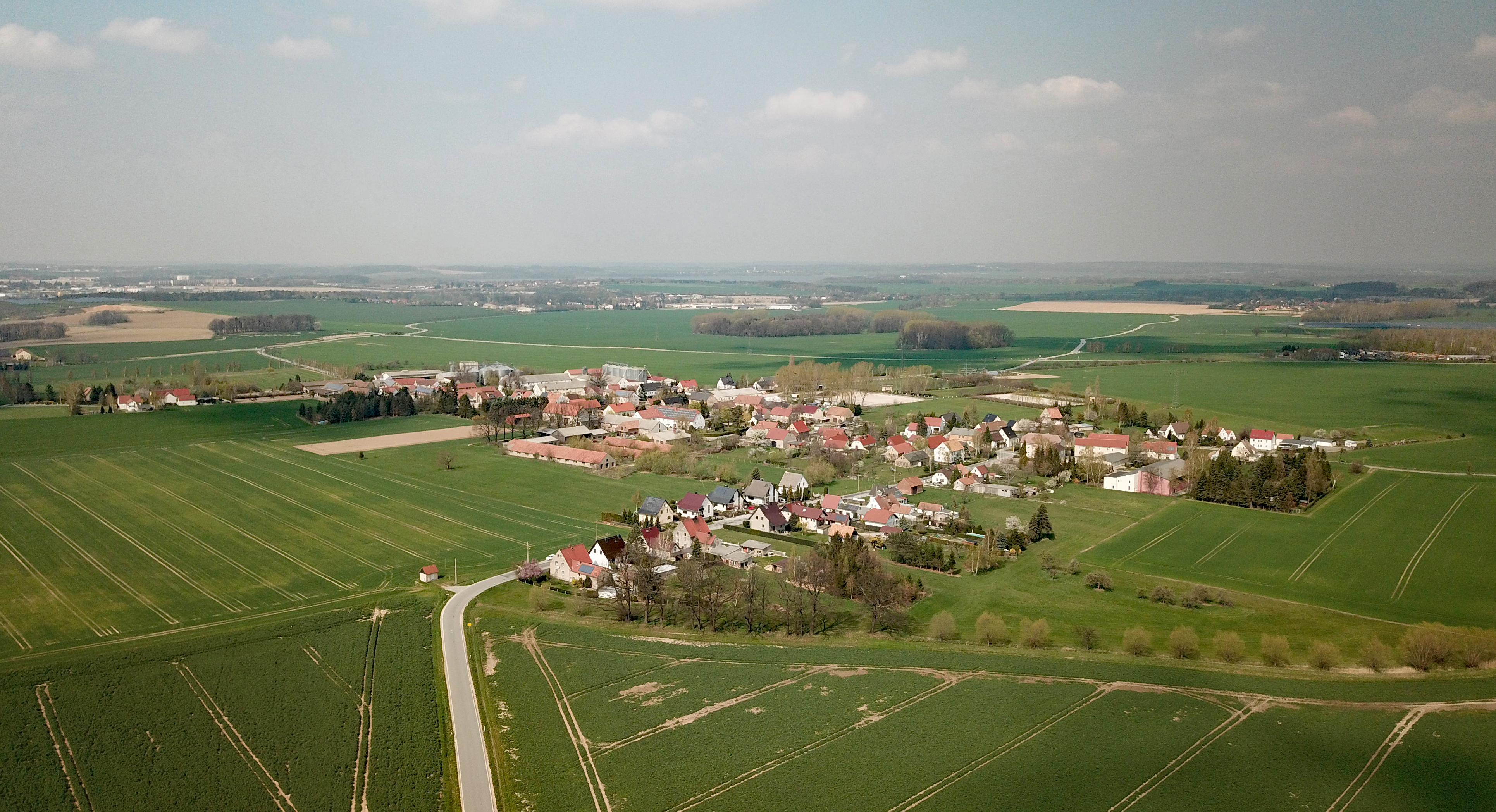 Baschütz (Kubschütz, Saxony, Germany) Hornjoserbsce: Powětrowy wobraz Bošec Dieses Foto wurde mit einem Quadcopter innerhalb der RMZ des Flugplatzes EDAB aufgenommen. Der Flugleiter wurde am Aufnahmetag telephonisch über Ort und Zeit informiert und hat zugestimmt. Der Flug erfolgte auf Grundlage der Allgemeinverfügung der Landesdirektion Sachsen zur Erteilung der Betriebserlaubnis für unbemannte Luftfahrtsysteme und Flugmodelle gemäß § 21a LuftVO und Zulassung von Ausnahmen von Betriebsverboten gemäß § 21b LuftVO für den Freistaat Sachsen.